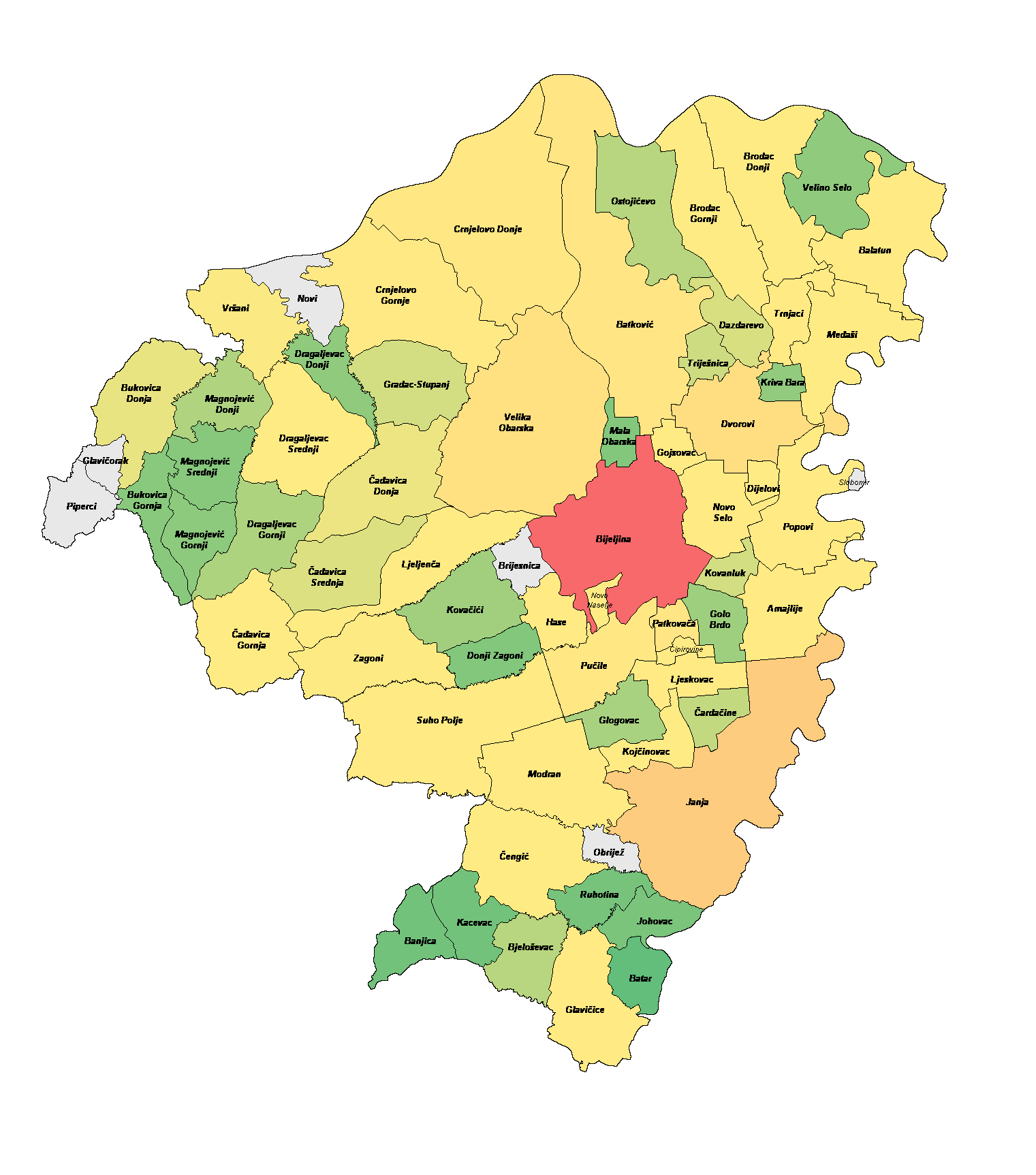 Bijeljina